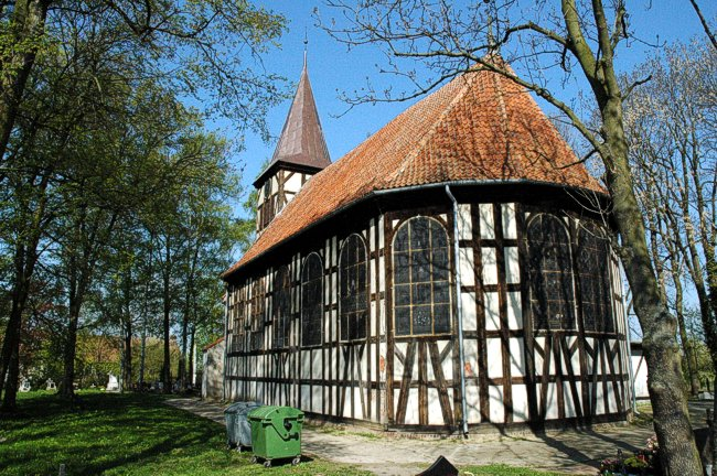 Church in Kiezmark (built in 1727)